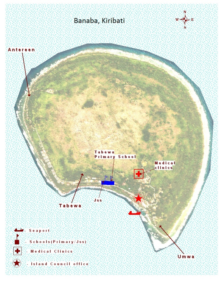 Astronaut photo of Banaba, Kiribati with villages and main landmarks Map errors: Location of Antereen is wrong, Tabwewa is at that location Location of Tabewa (sic!) is wrong, Tabiang = Antereen is at that location